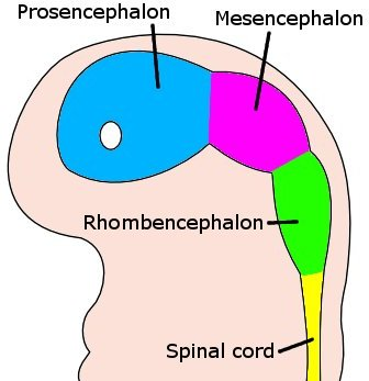 Brain of a four-week old human embryo.